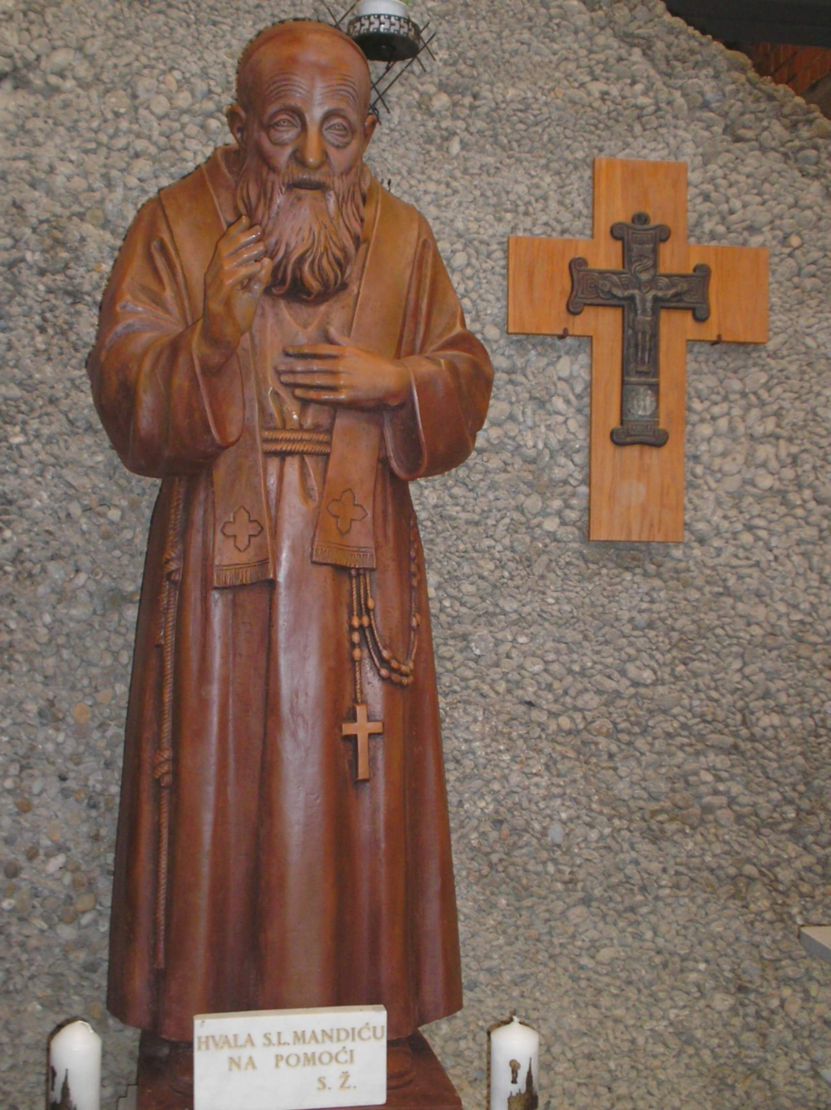 Statue of Saint Leopold Bogdan Mandic in Marija Bistrica, Croatia